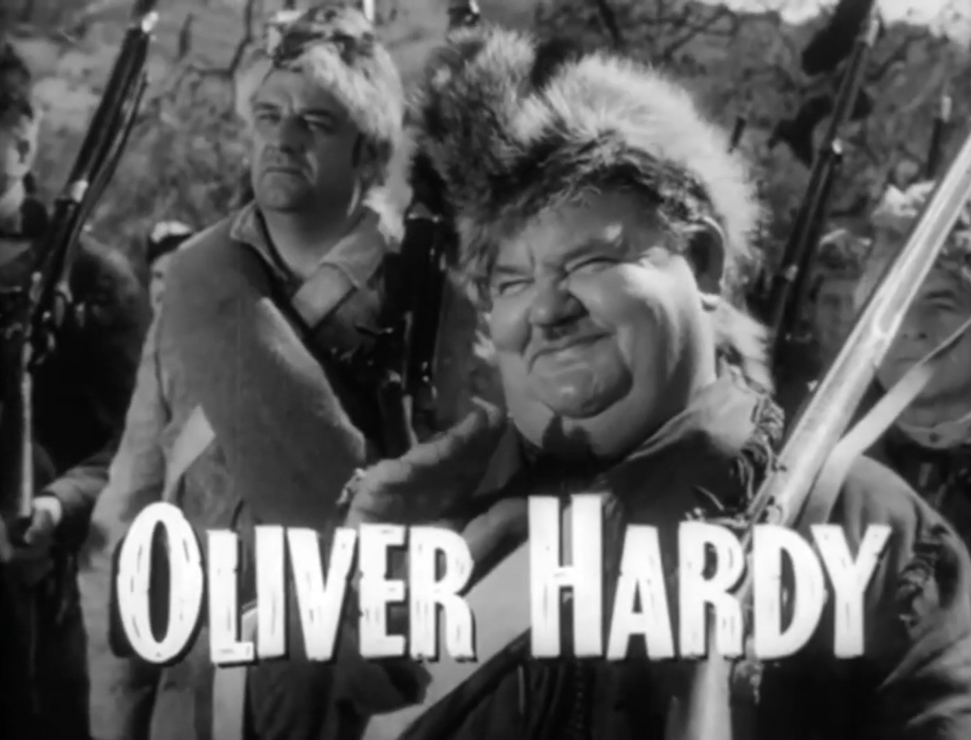 Cropped screenshot from the Trailer The Fighting Kentuckian (1949), Oliver Hardy